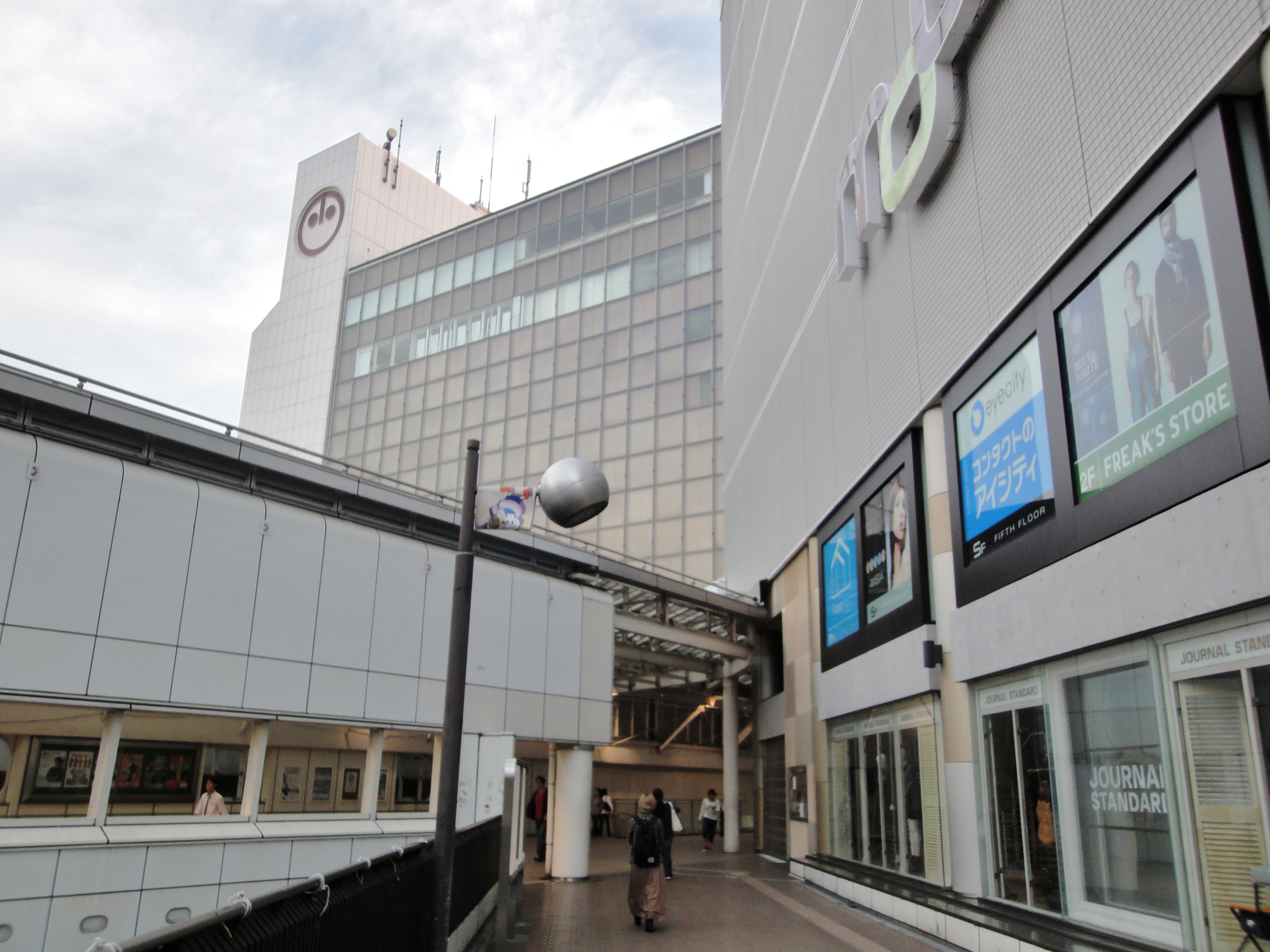 Machida Station